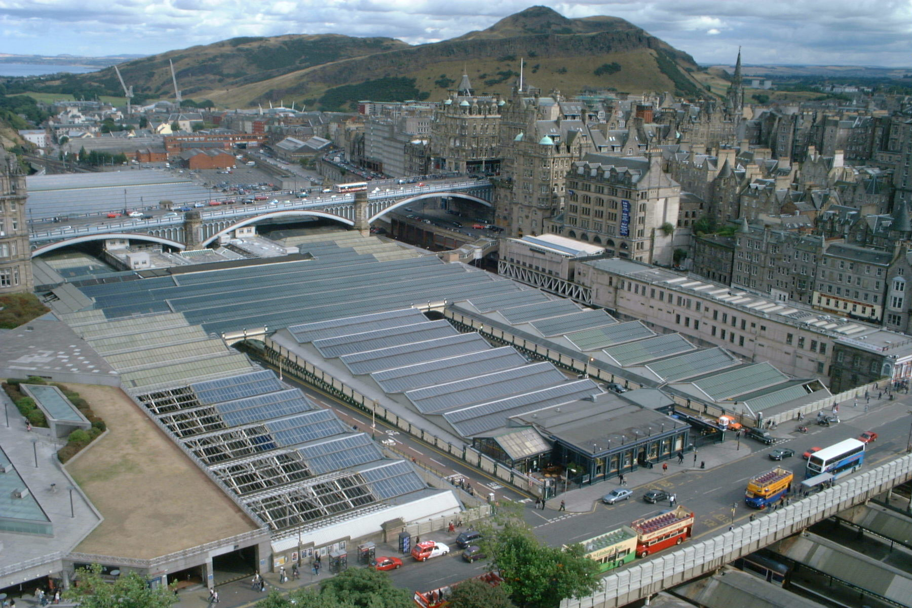 own photo